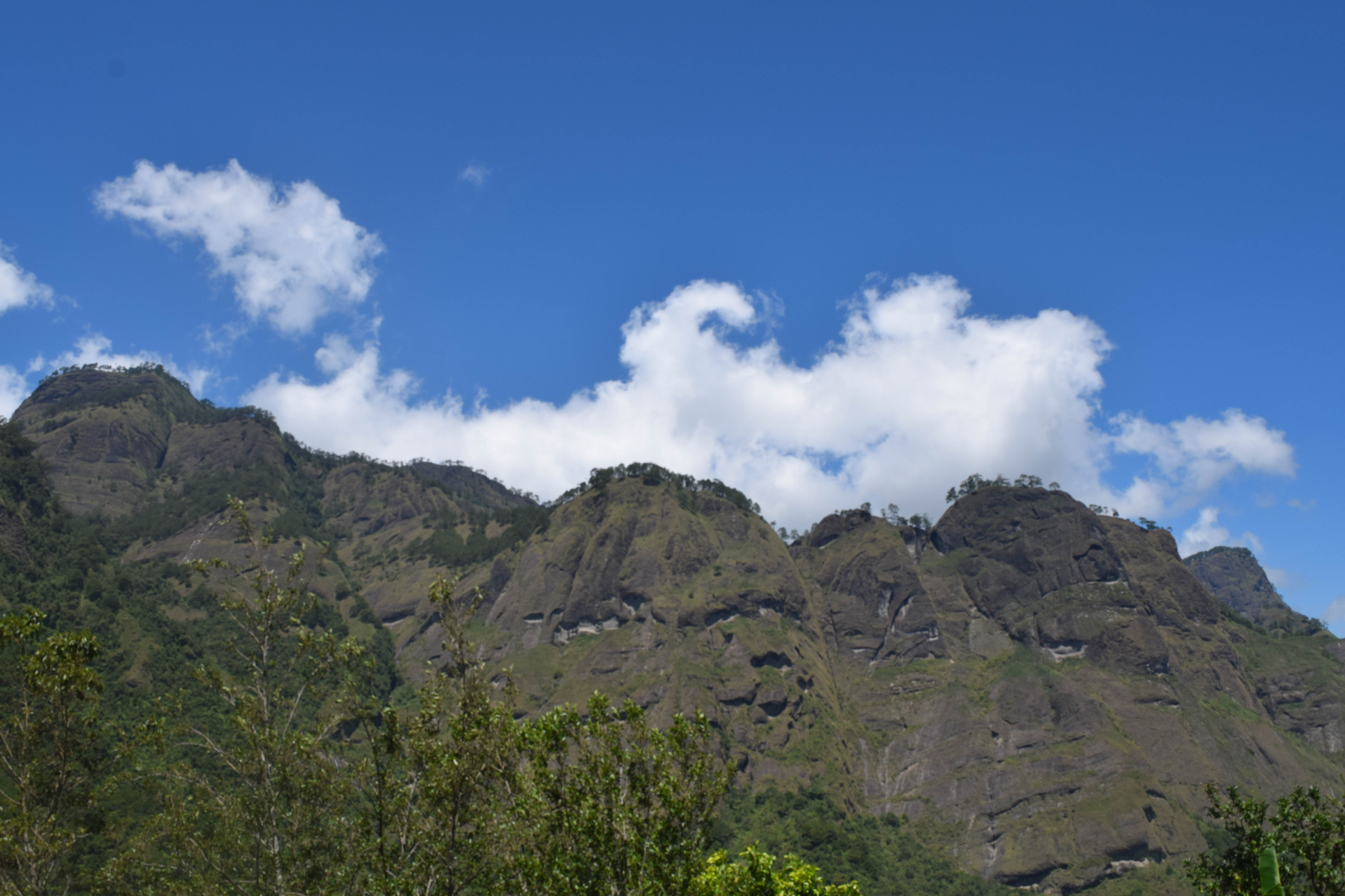 Mt. Tenglawan is located at Bakun, Benguet.